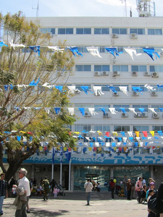 City hall